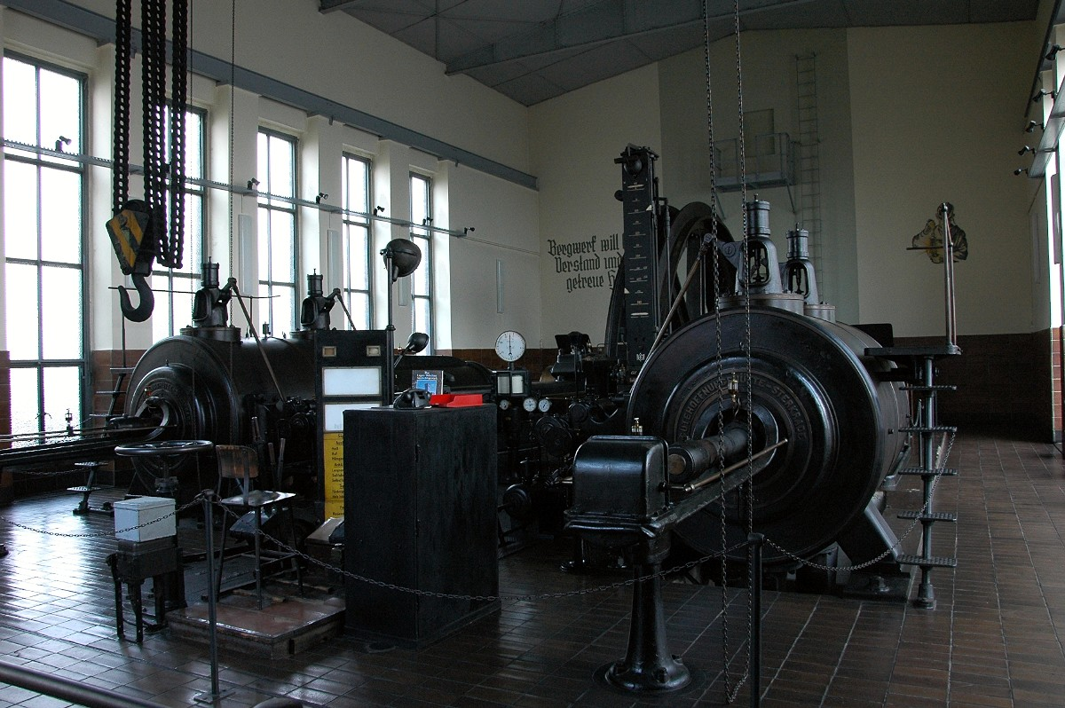 steam drawing engine of the Kaiserin Augusta shaft at Oelsnitz/Erzgebirge, today part of the Bergbaumuseum Oelsnitz/Erzgebirge